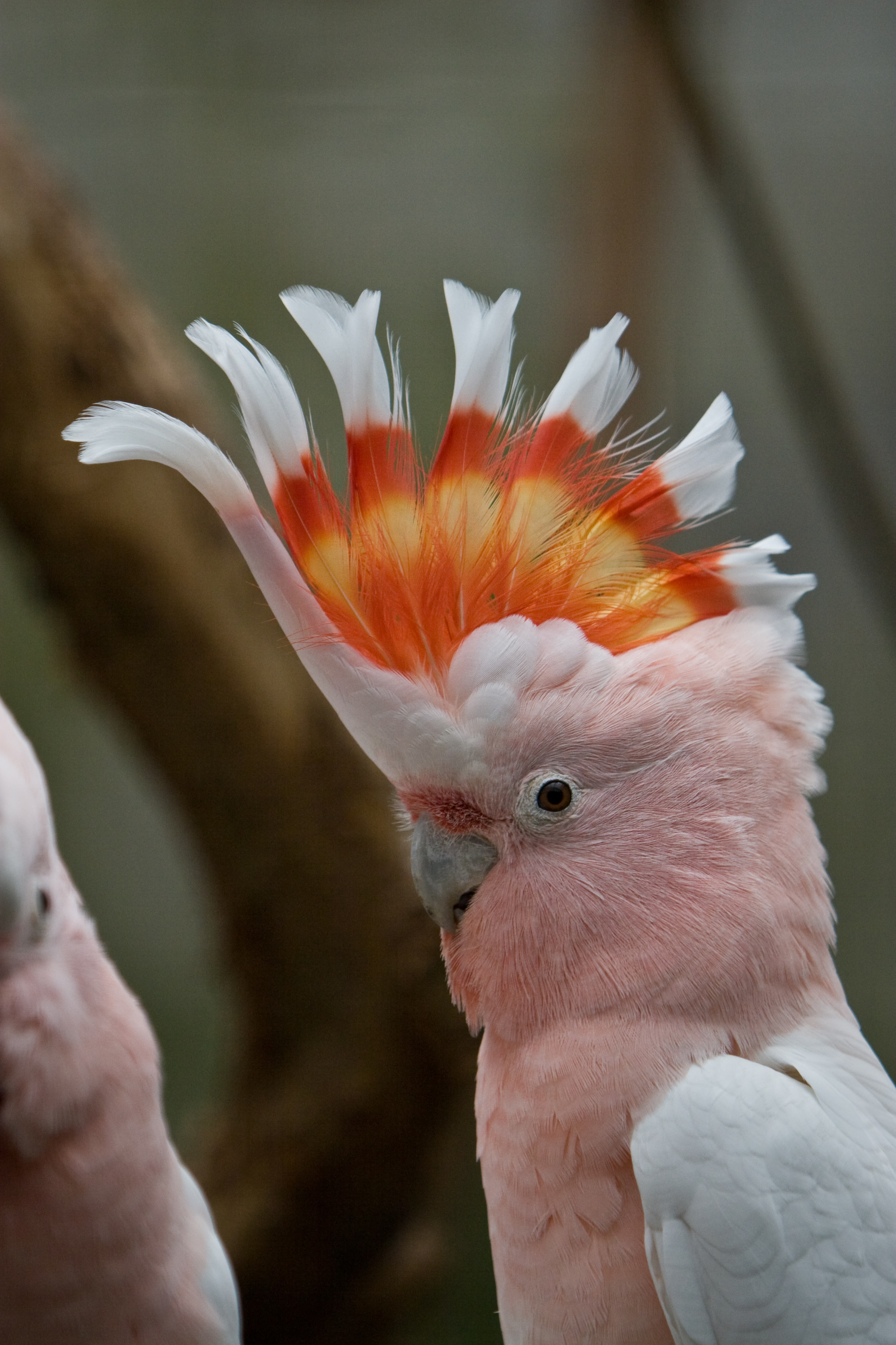 Major Mitchell's Cockatoo (also known as Leadbeater's Cockatoo and Pink Cockatoo) at Artis Zoo, Amsterdam, Netherlands.